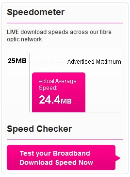 sw speedometer